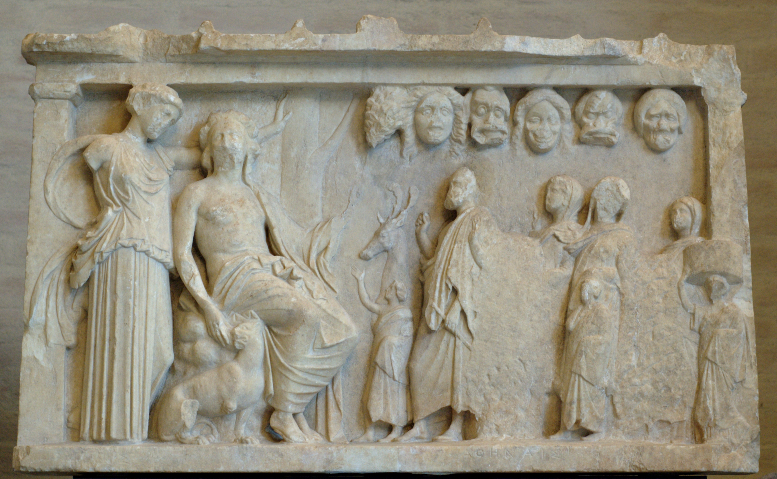 Votive relief with a flute player and his family in front of Dionysos and Artemis. Attica, ca. 360–350 BC.